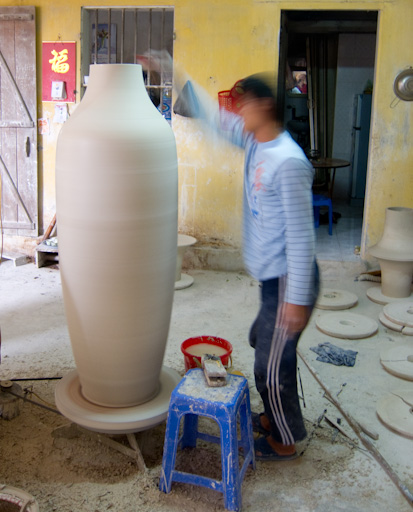 trimming a molded vase on a wheel